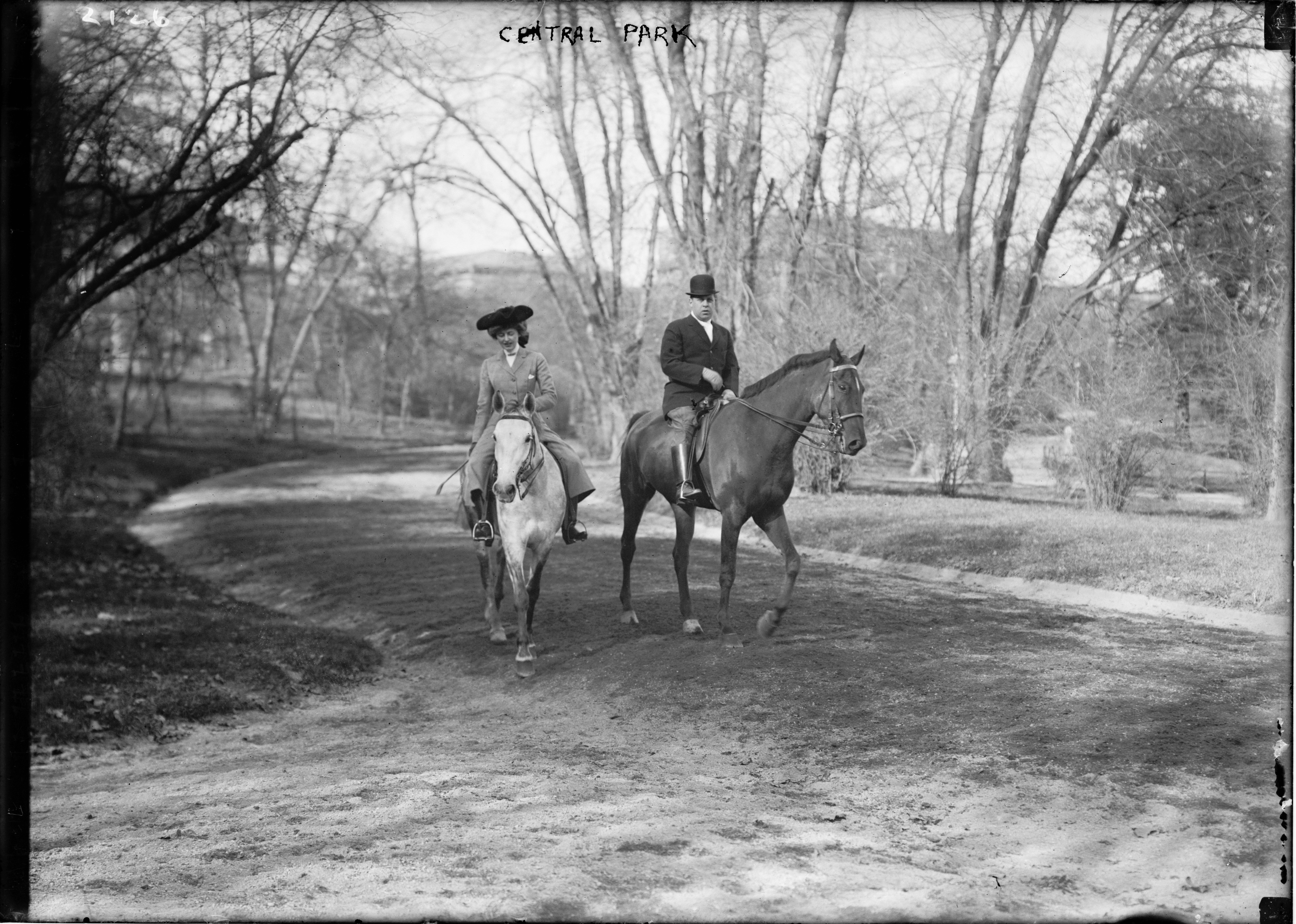 Central Park horseback riding.